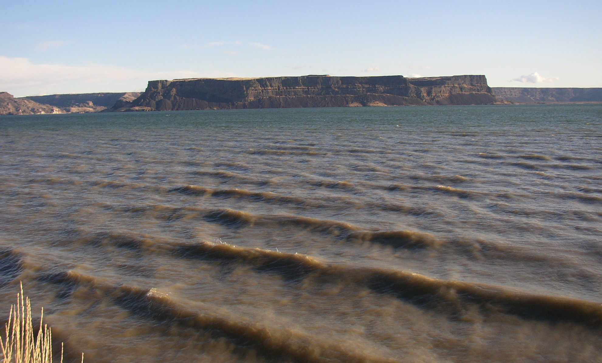 Steamboat Rock as seen across Banks Lake in the Grand Coulee. Photo taken in November, 2006 by uploader. Williamborg 07:14, 12 November 2006 (UTC)